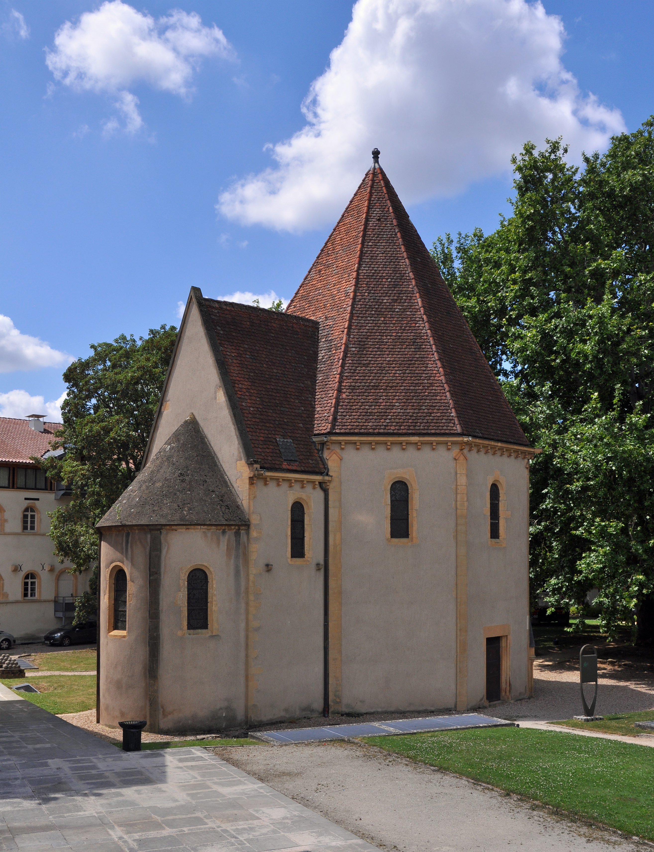 Metz (France): Templars chapel